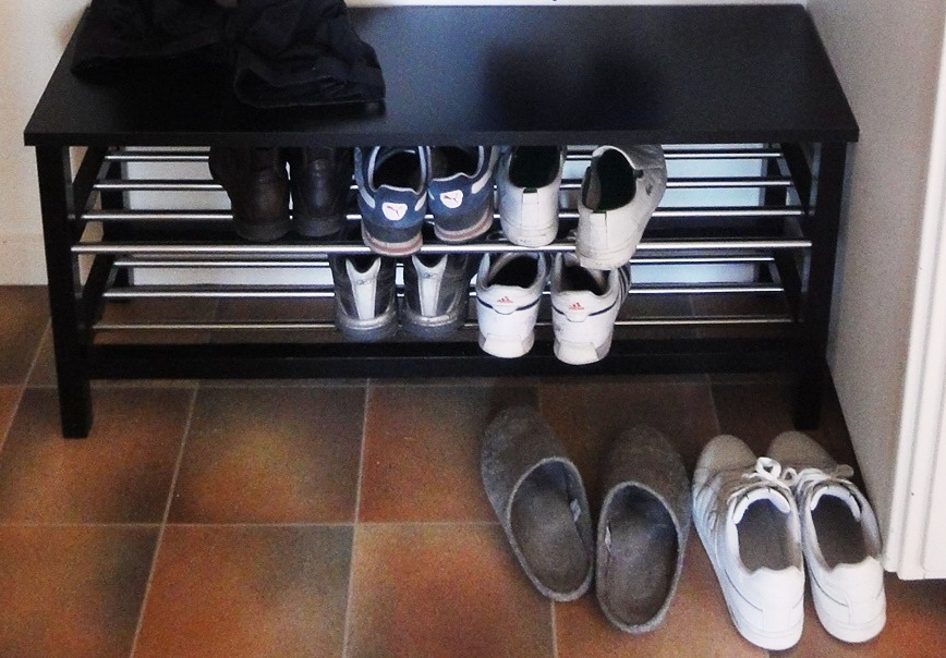 Shoe rack - shelf